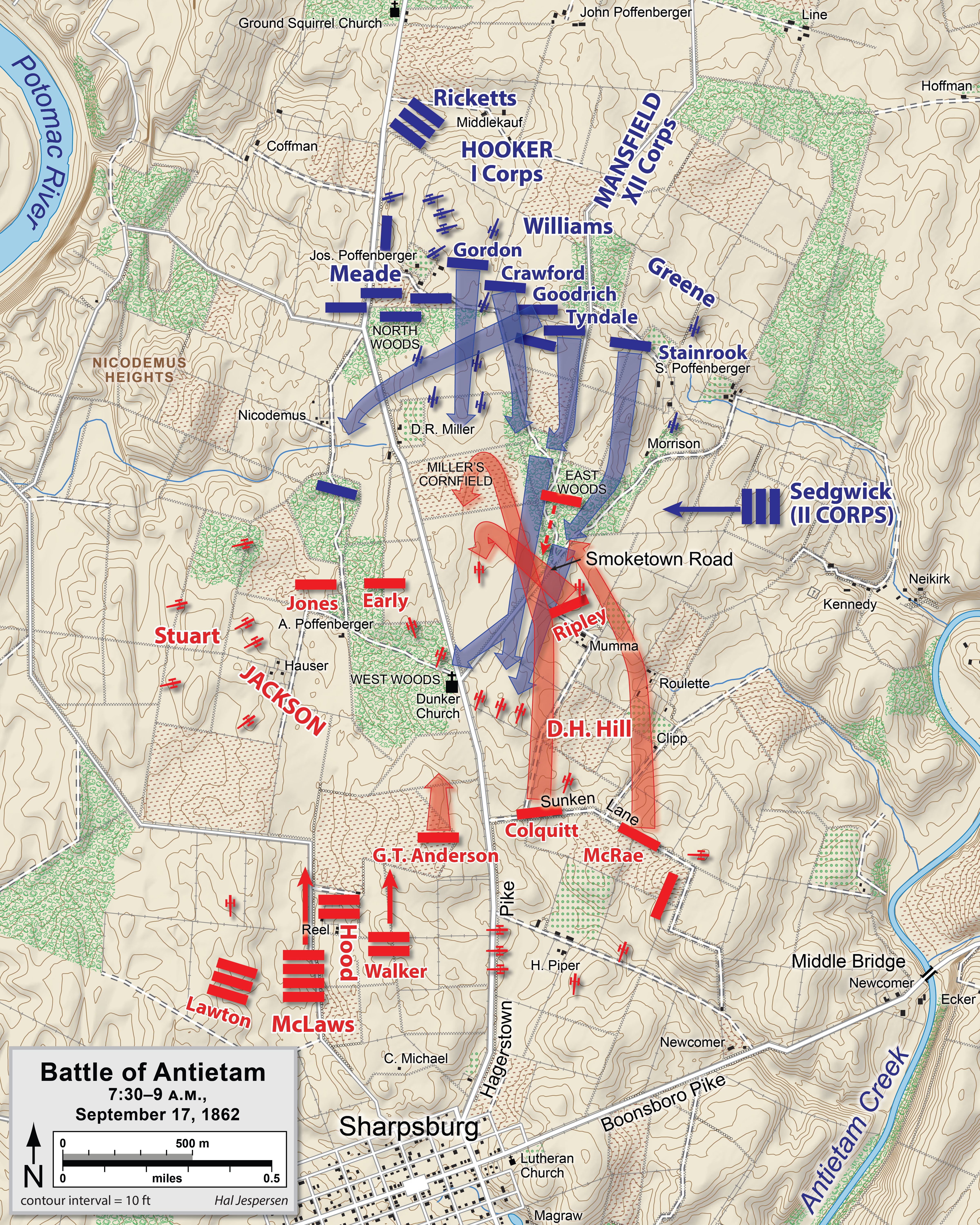 Map of the Battle of Antietam of the American Civil War. Drawn in Adobe Illustrator CS5 by Hal Jespersen. Graphic source file is available at